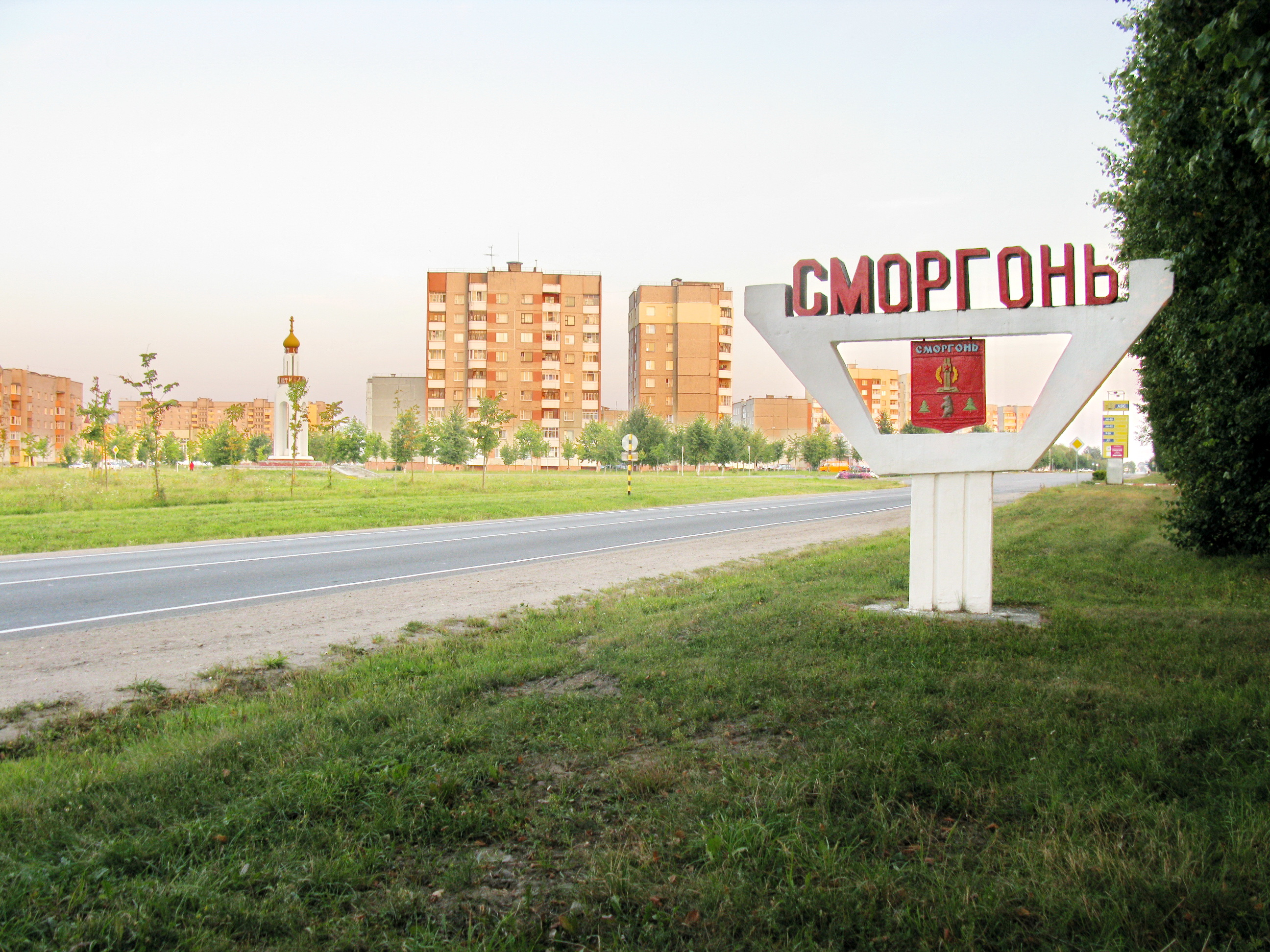 Smarhon', Belarus. Entrance into the town from the Minsk side